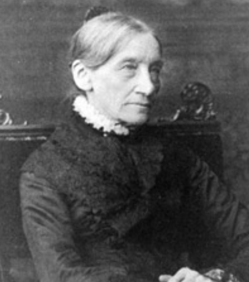 Sarah Porter (1813–1900), American educator